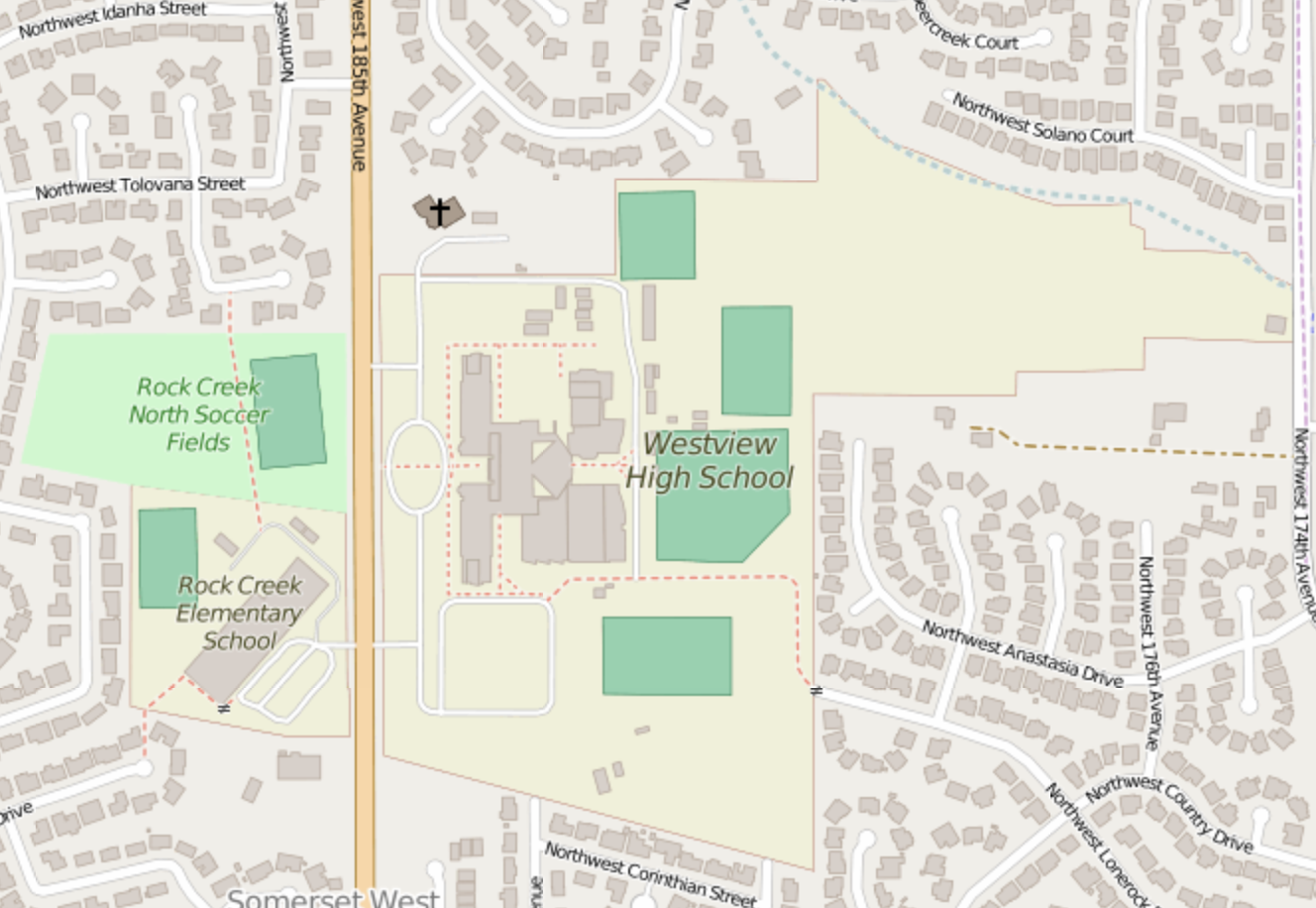 Map of Westview High School campus This map of Beaverton, Oregon was created from OpenStreetMap project data, collected by the community. This map may be incomplete, and may contain errors. Don't rely solely on it for navigation.